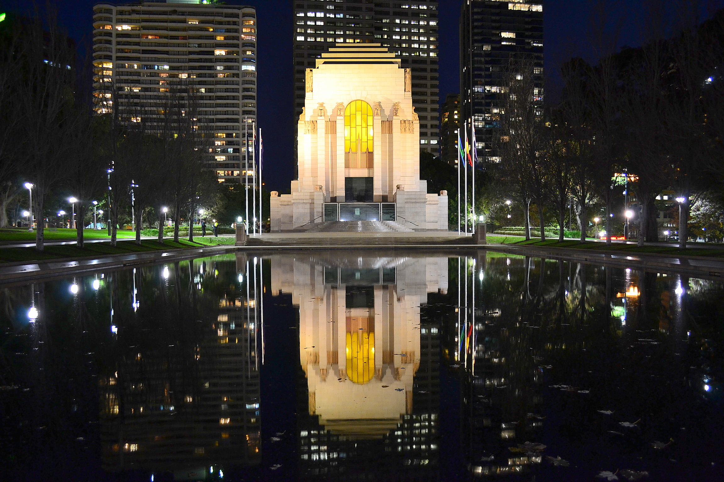 ANZAC War Memorial, Hyde Park, Sydney